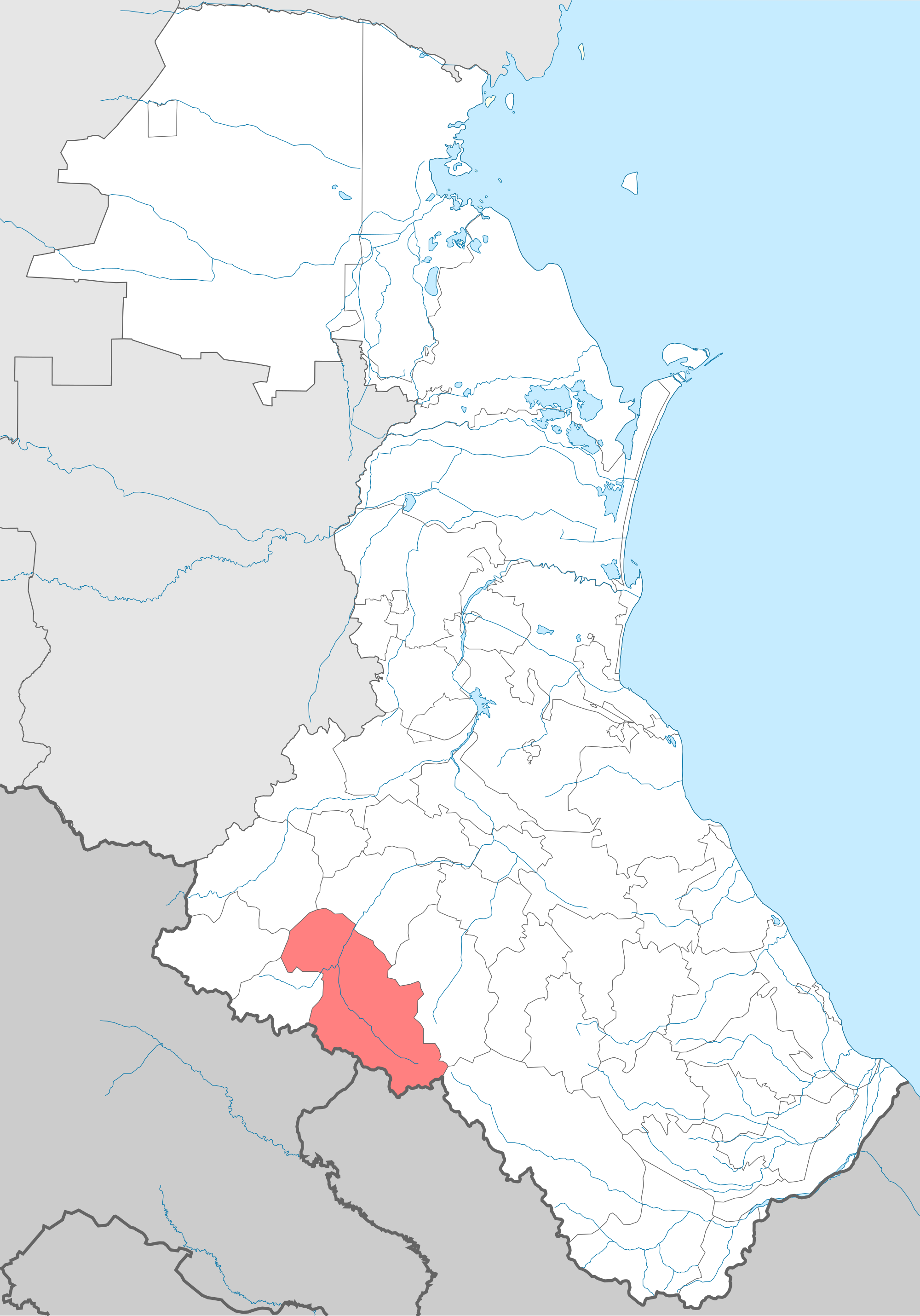 Tlyaratinsky district locator map